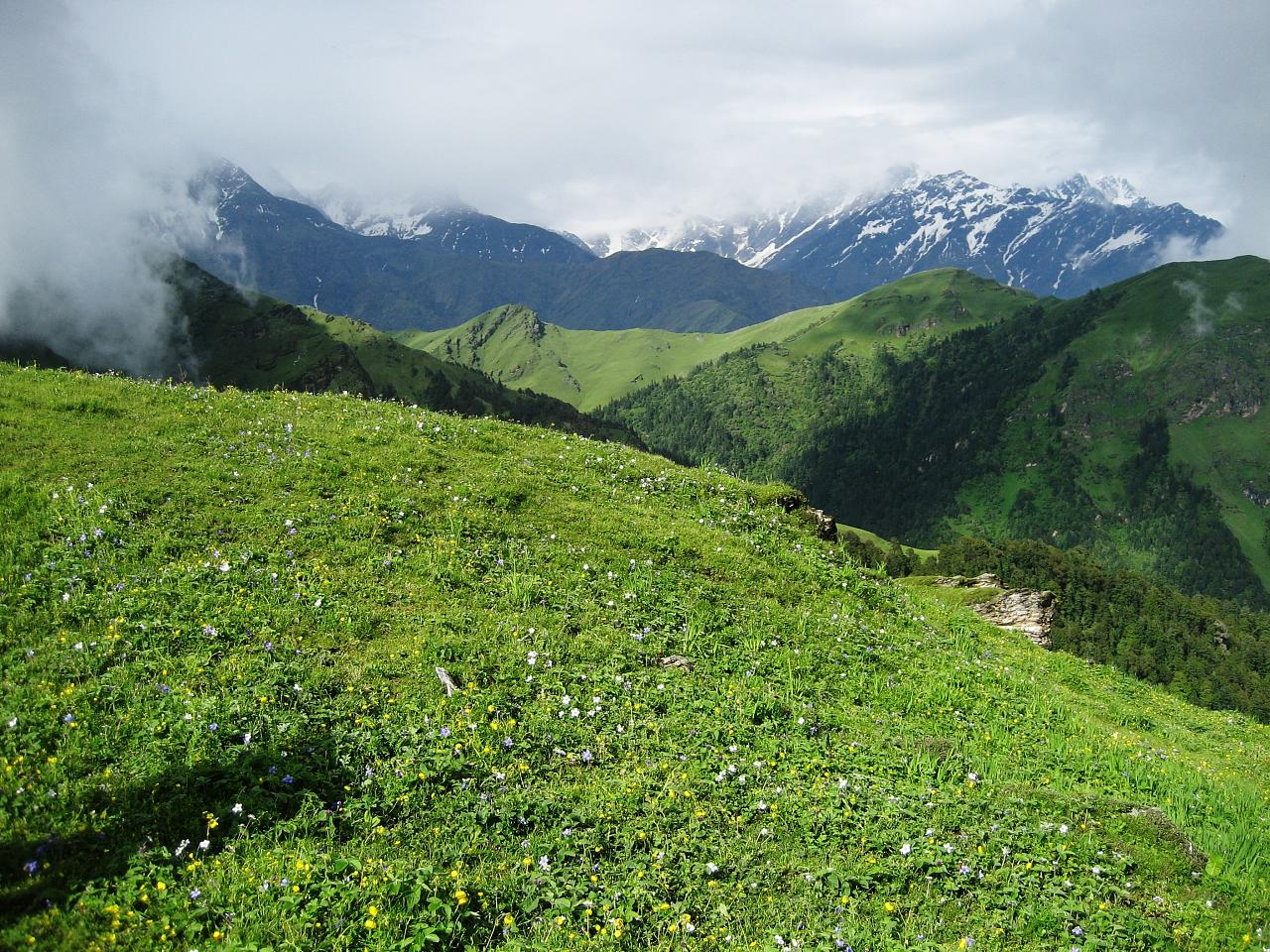 Auli Bugyal, a meadow in Uttarakhand, India.